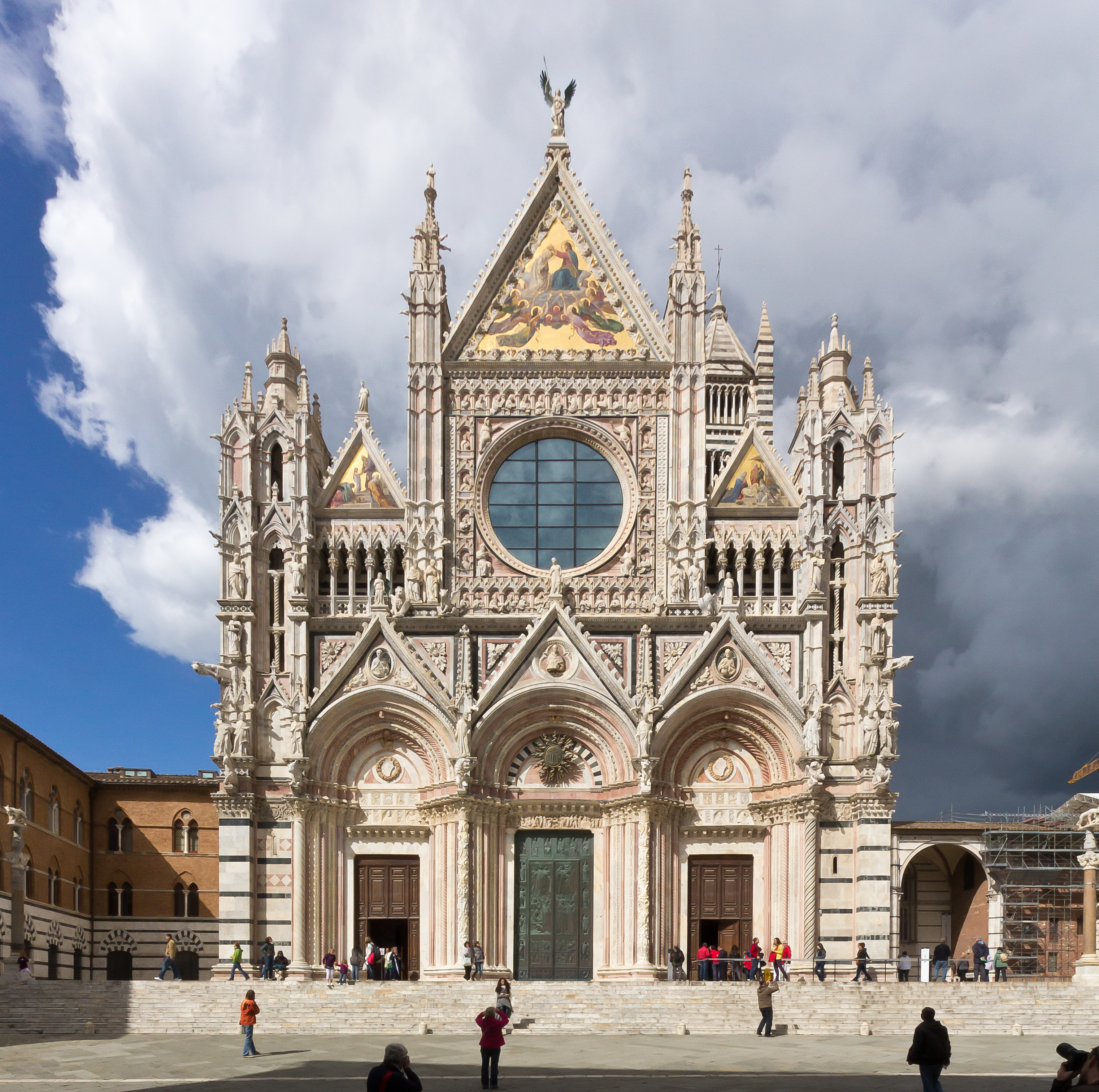 Cathedral of Siena, Tuscany, Italy.